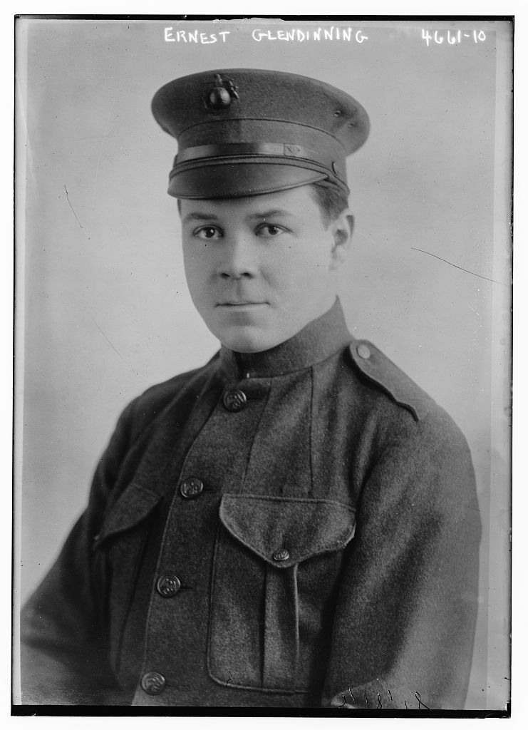 Bain News Service,, publisher. Ernest Glendinning [between ca. 1915 and ca. 1920] 1 negative : glass ; 5 x 7 in. or smaller. Notes: Title from unverified data provided by the Bain News Service on the negatives or caption cards. Forms part of: George Grantham Bain Collection (Library of Congress). Format: Glass negatives. Repository: Library of Congress, Prints and Photographs Division, Washington, D.C. 20540 USA, General information about the Bain Collection is available at Higher resolution image is available (Persistent URL): Call Number: LC-B2- 4661-10